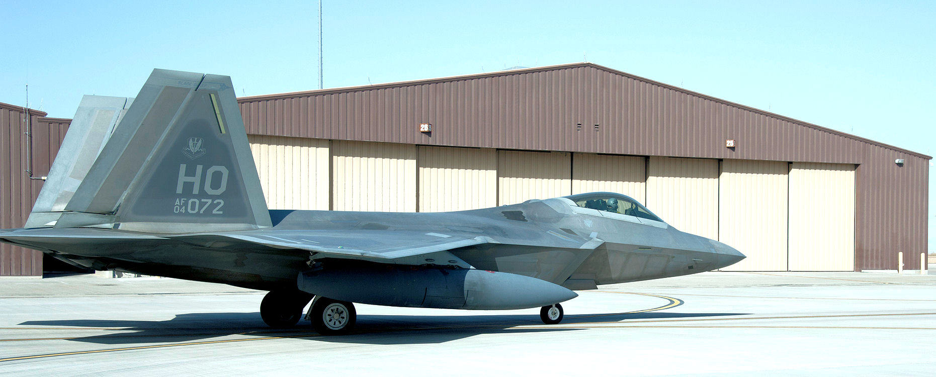 HOLLOMAN AIR FORCE BASE N.M. – An F-22 Raptor taxis through the canyon during a Phase One Operational Readiness Exercise Feb. 29. The F-22 is a fifth-generation fighter jet. (U.S. Air Force photo by Airman 1st Class Colin Cates/Released)